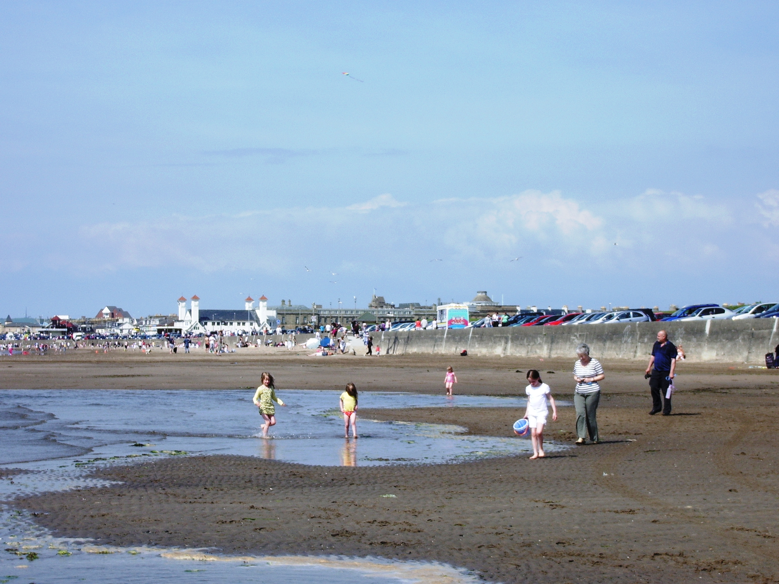 Ayr beach, looking north, tide ebbing.